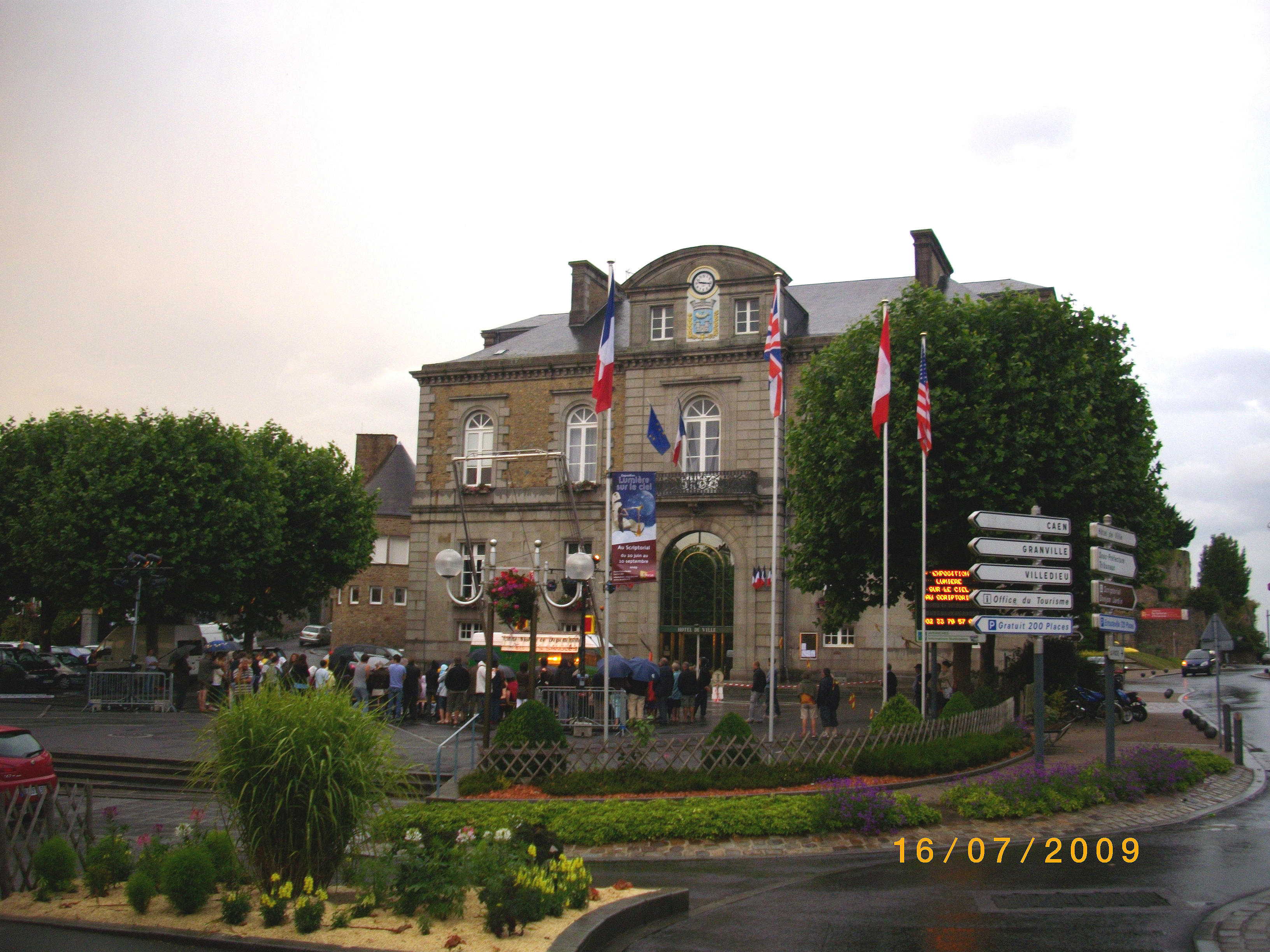 Town hall of Avrachnes, Manche